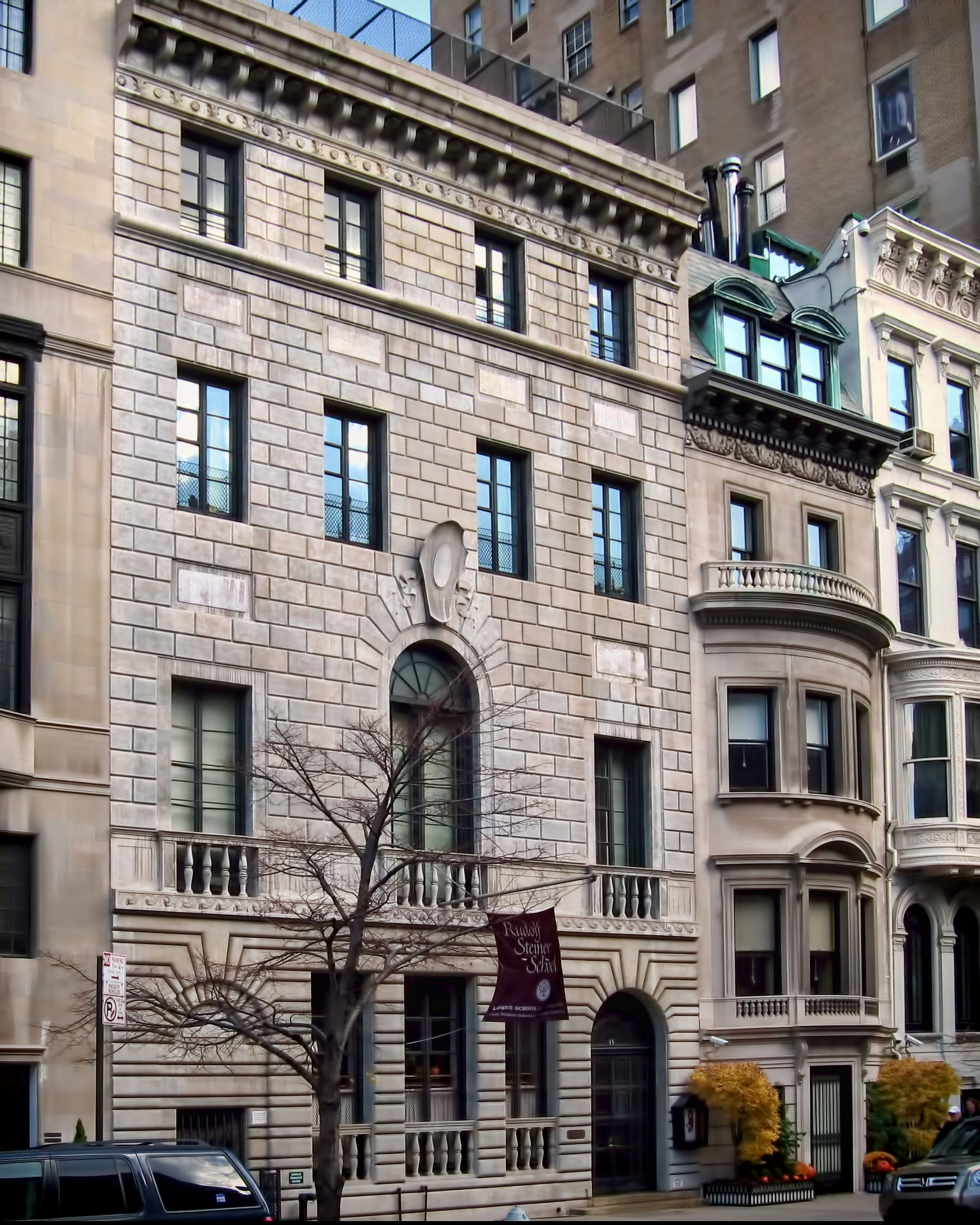 Looking northeast across East 79th Street at Rudolf Steiner school on a sunny midday